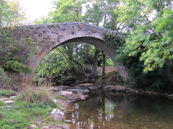 Medieval bridge in Riañño de Cammpoo. Híjar River, Cantabria, Spain.